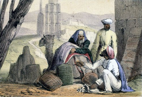 A print from 1845 shows cowry shells being used as money by an Arab trader. BENJAMIN WATERHOUSE HAWKINS / SSPL / THE IMAGE WORKS